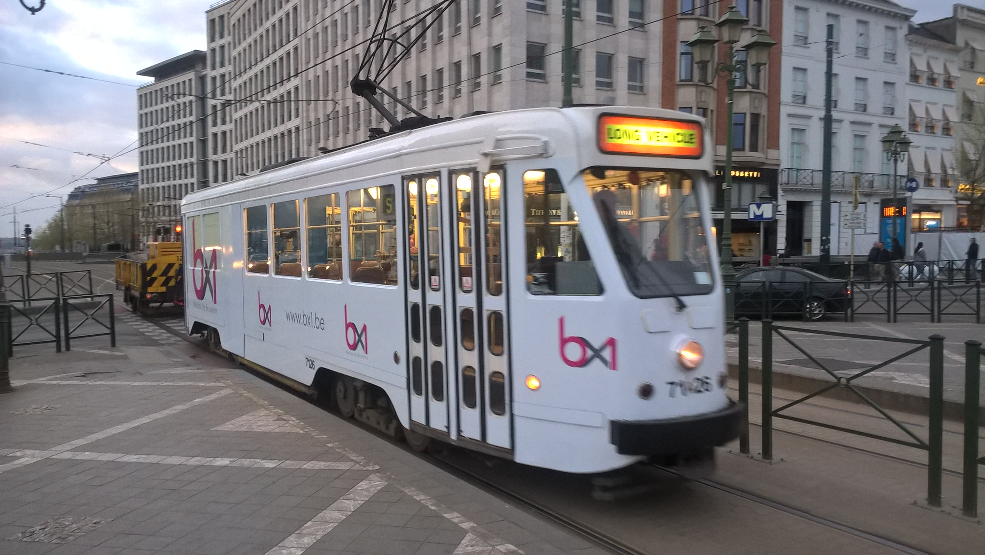 Car 7126, BX1 programme Le Tram mobile studio, at Place Louise, 5 April 2017[1]: It serves as a mobile studio for the Le Tram television programme broadcast by BX1 (formely Télé Bruxelles) every other Sunday, during which an interview is conducted while the tram tours Brussels.[2]. The tram tows a generator trailer.